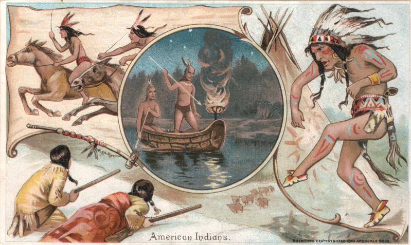 Persistent URL: Subject (TGM): Ethnic groups; Indians of North America; Indigenous peoples; Clothing & dress; Costumes; Animals; Horses; Horseback riding; Canoes; Fishing; Headdresses; Dance; Dancers; Message: Keywords